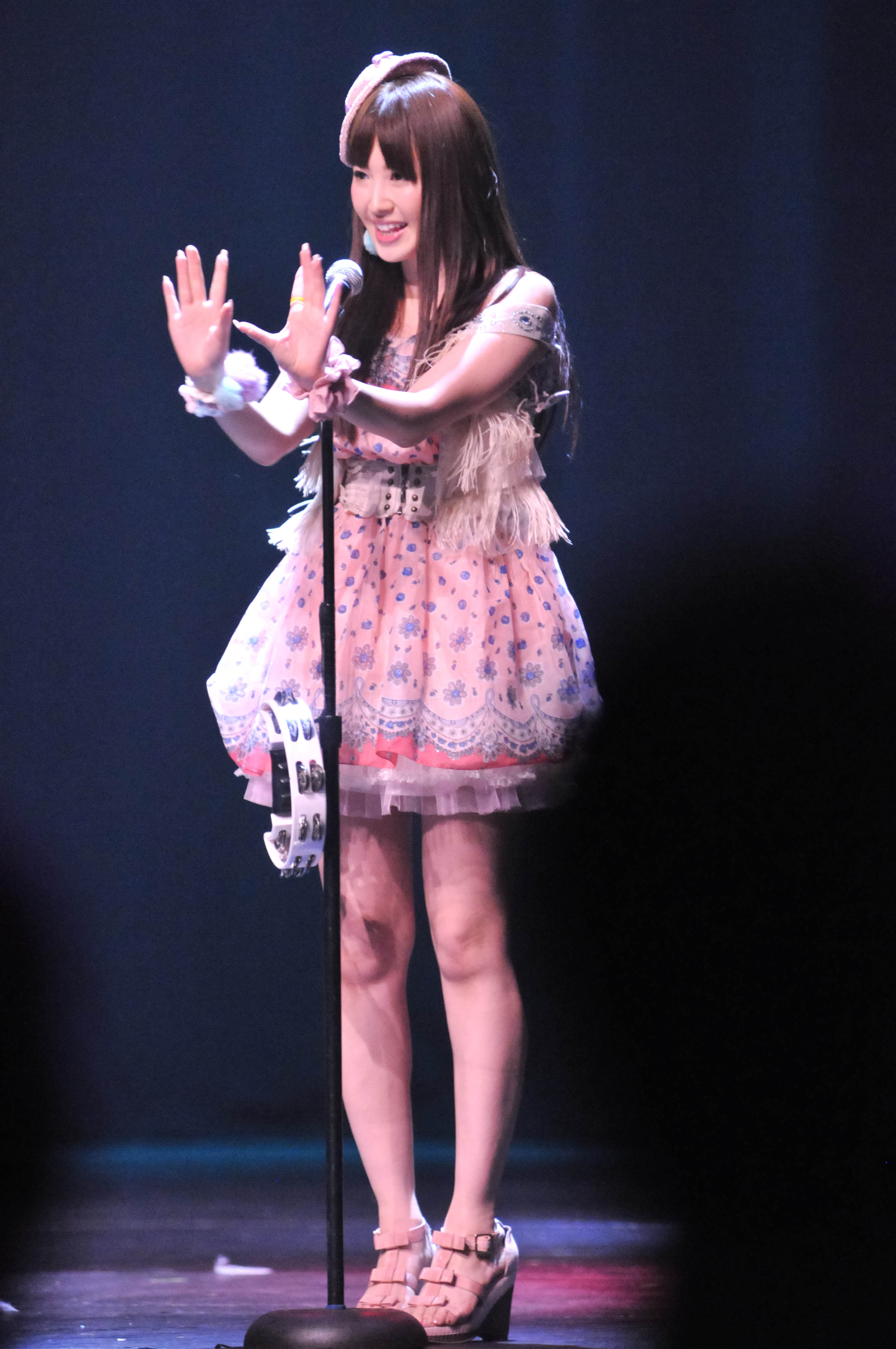 Haruna Kojima at J!-ENT LIVE: AKB48